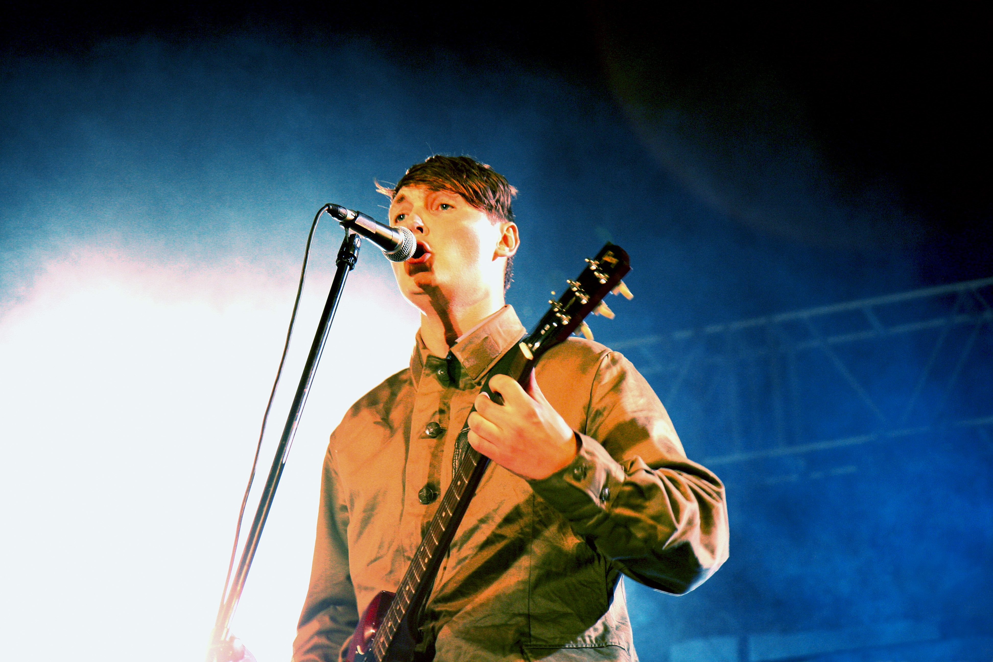 Belarusian band TLUSTA LUSTA at the fest "Basovišča-2008", Grodek, Poland. 19.07.2008